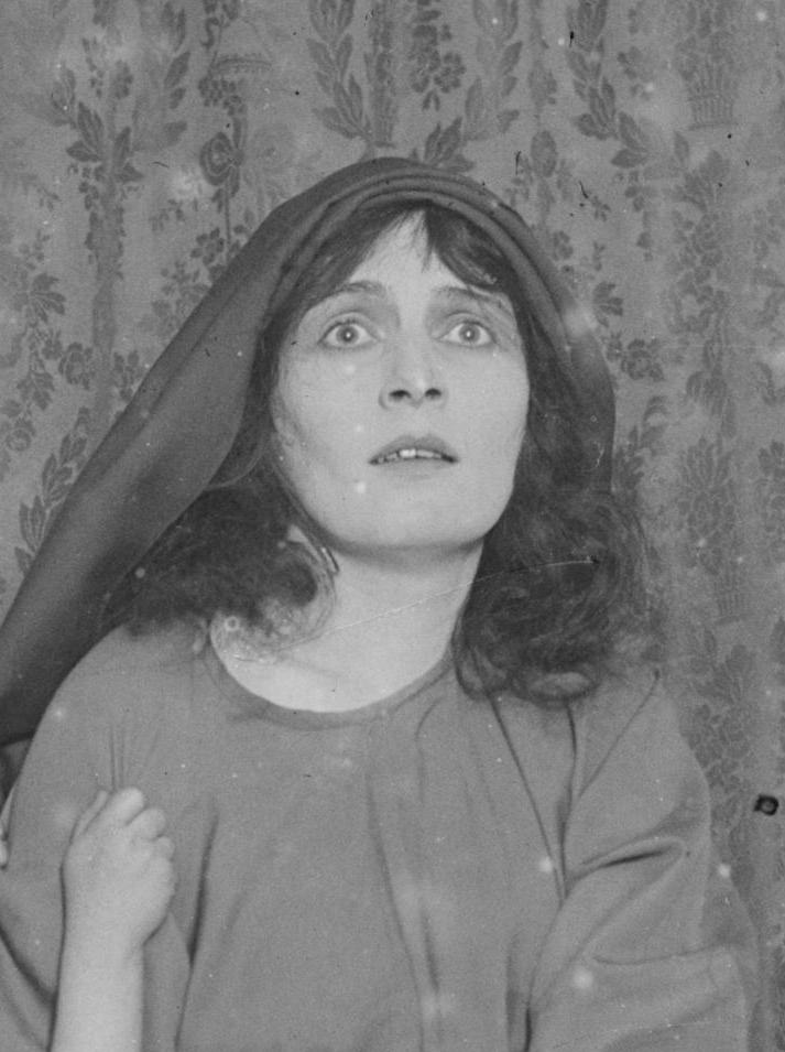 Mary Alden from a tableaux vivant photo.